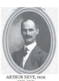 picture